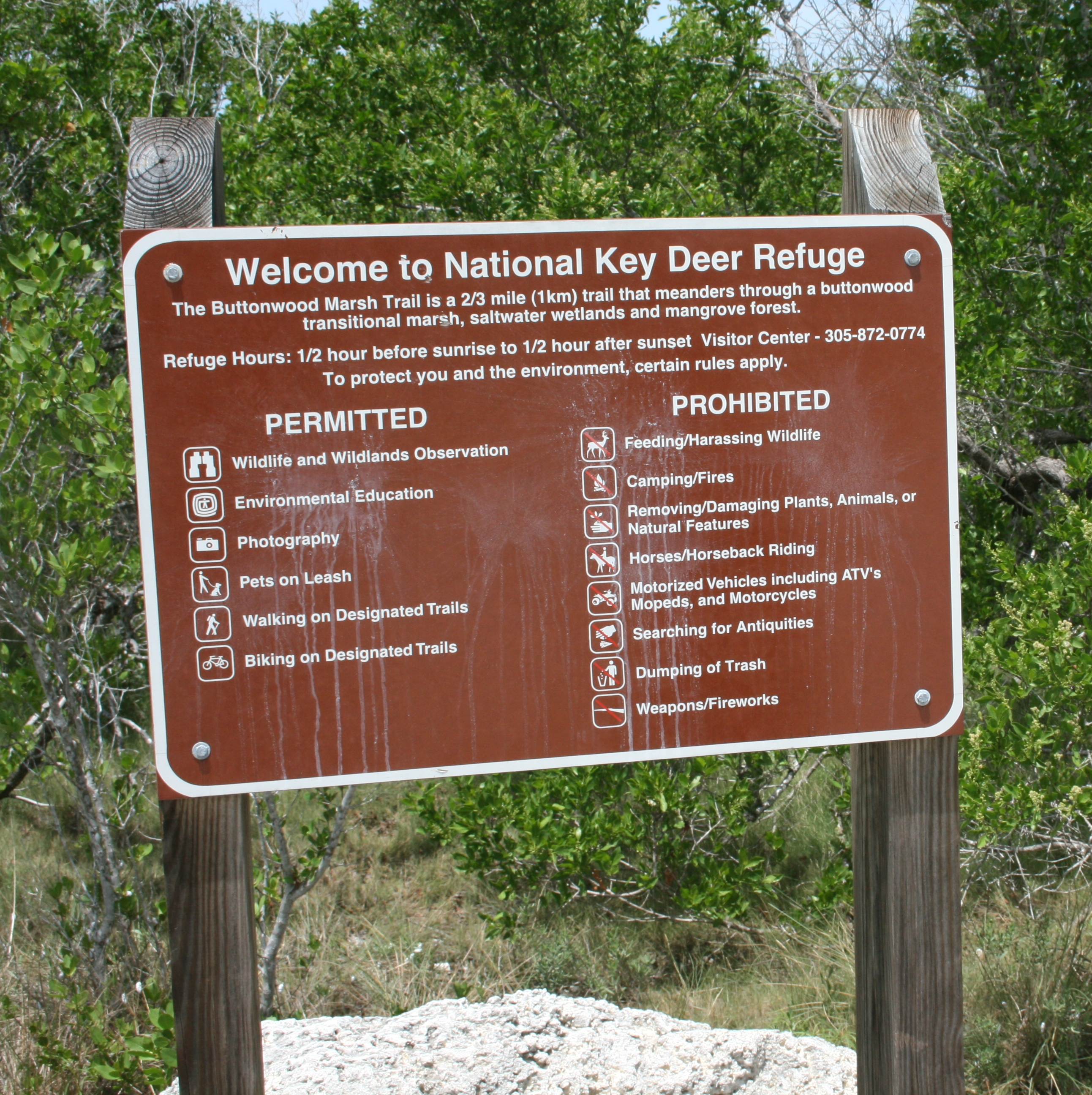 Welcome sign in National Key Deer Refuge, Big Pine Key, Florida.